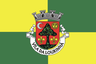 Flag of Lourinhã